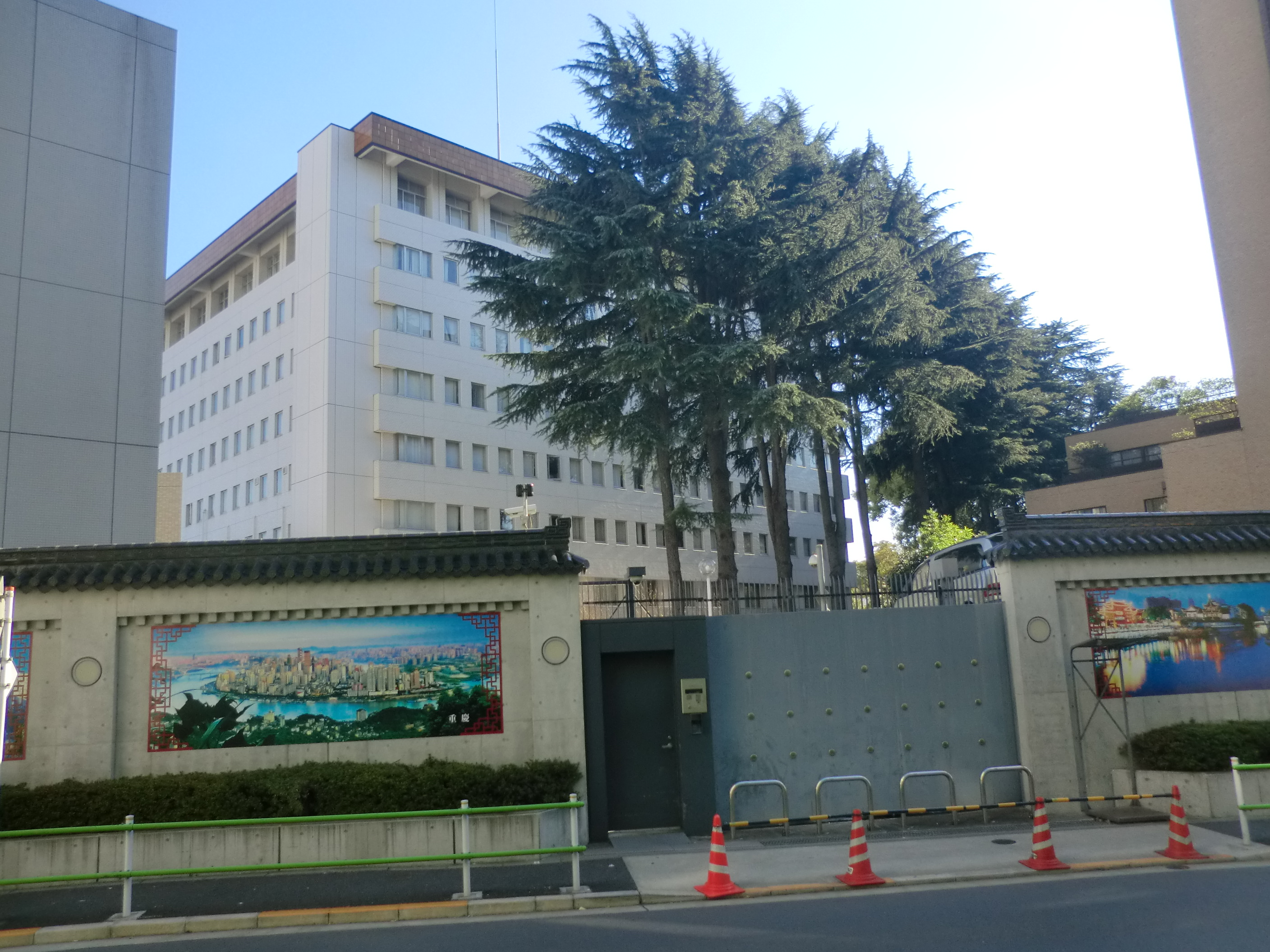 Embassy of the People's Republic of China in Japan located at Moto-Azabu, Minato Ward, Tokyo.